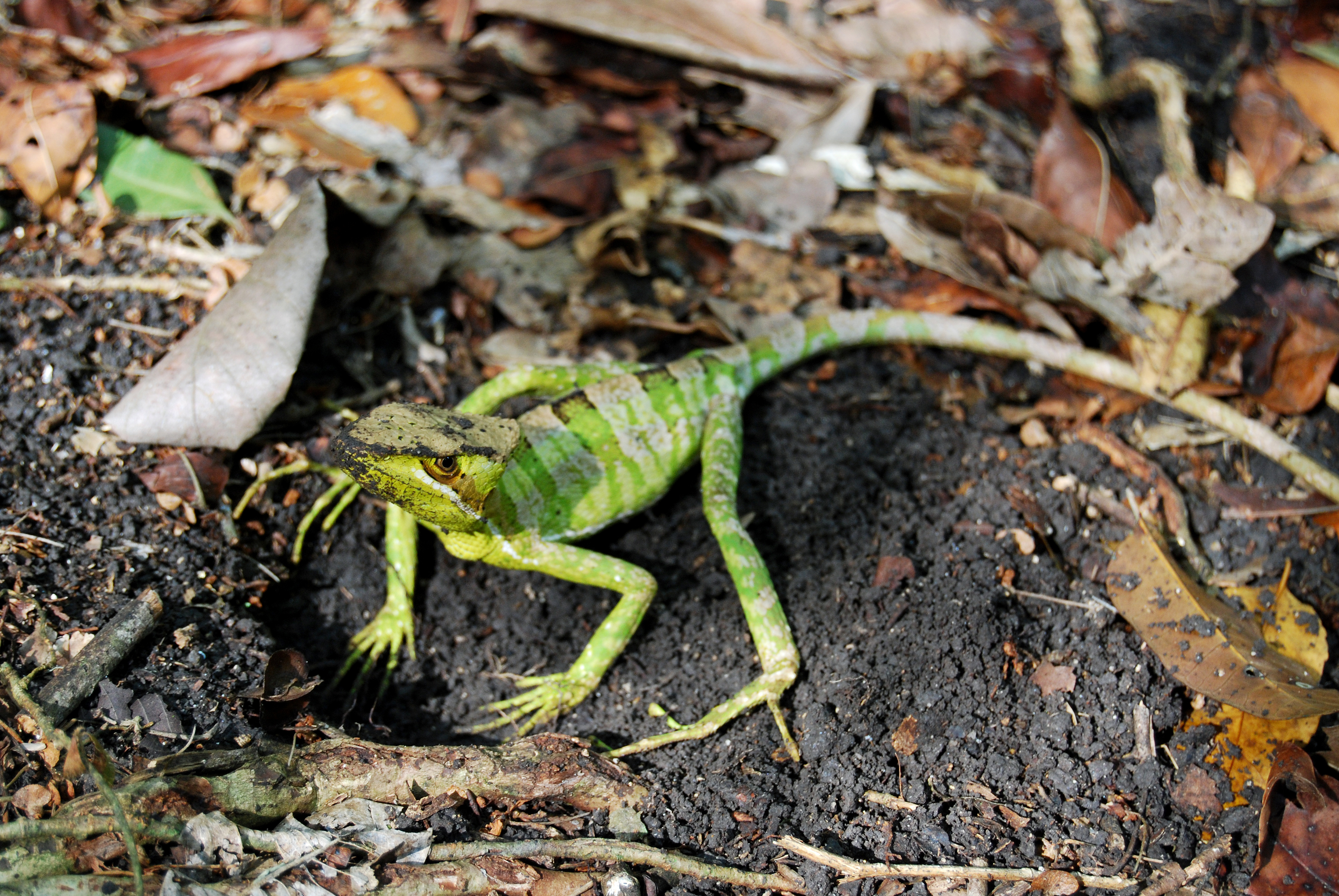 A female Eastern Casquehead Iguana (Laemanctus longipes) digging a burrow near the Mayan ruins of El Mirador, Guatemala, possibly for use as a nesting site.